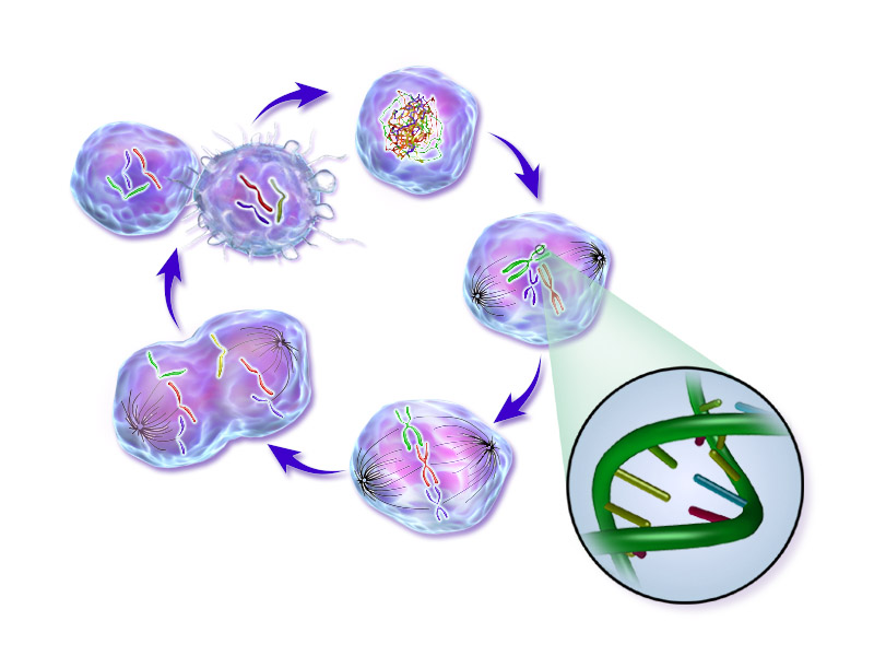 An illustration depicting the life cycle of a cancer cell.